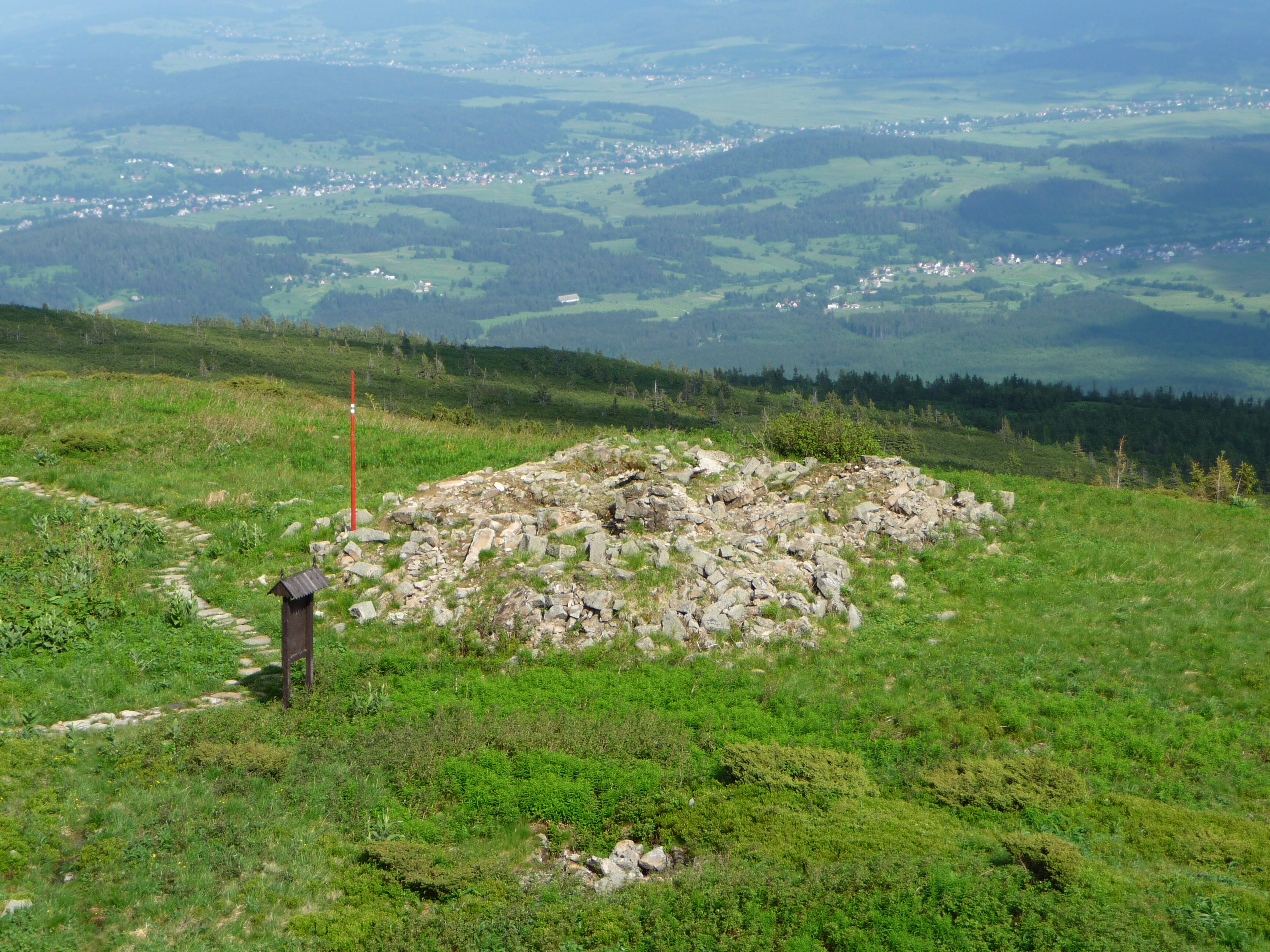 Remains of the Beskidenverein mountain hut under the peak of Babia Góra/Babia hora (Lesser Poland Voivodeship, Poland).